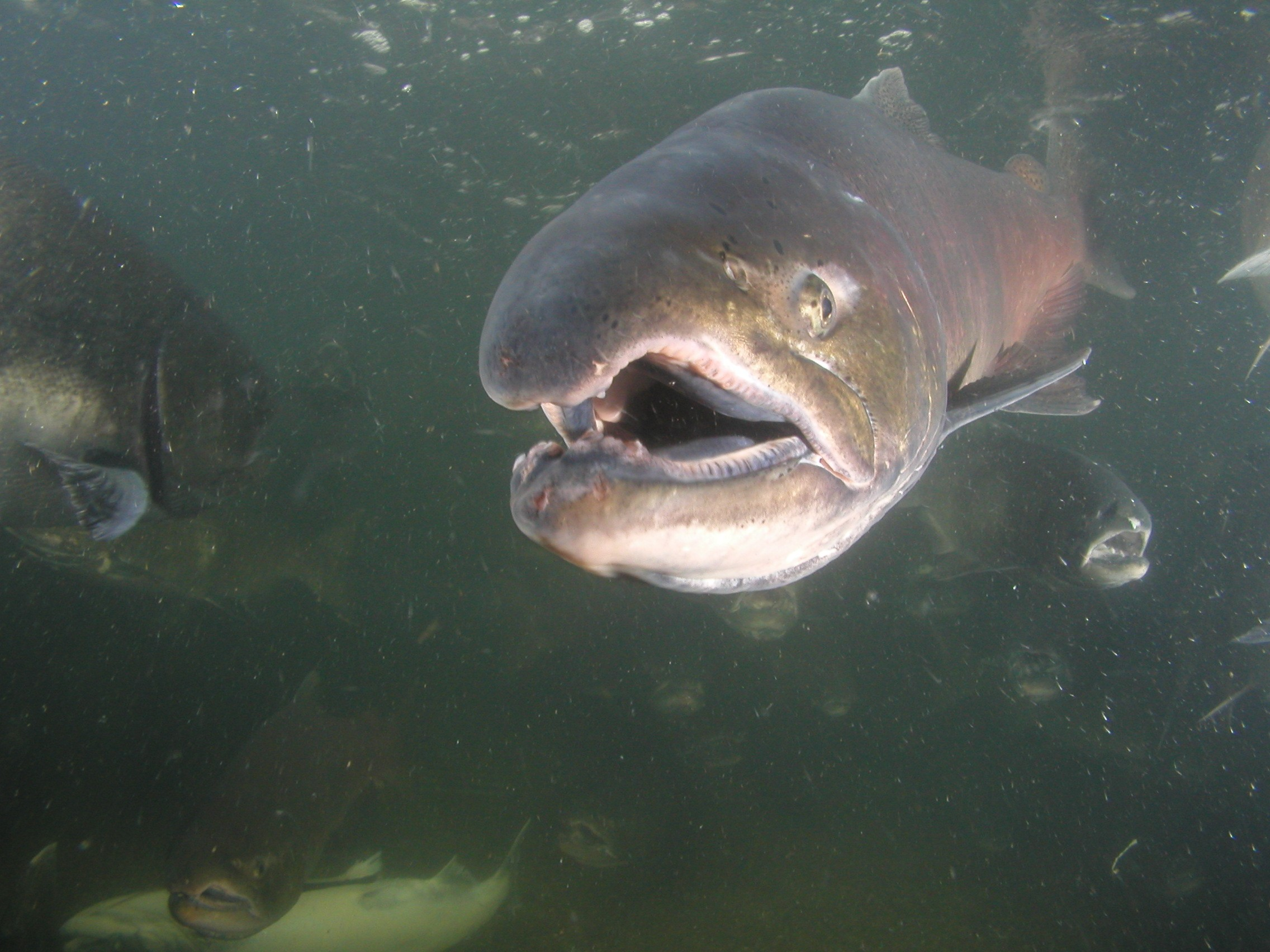 Male Feather River spring Chinook